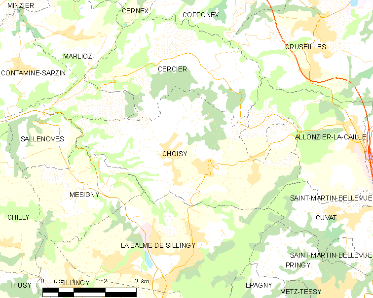 Map of French municipality Choisy